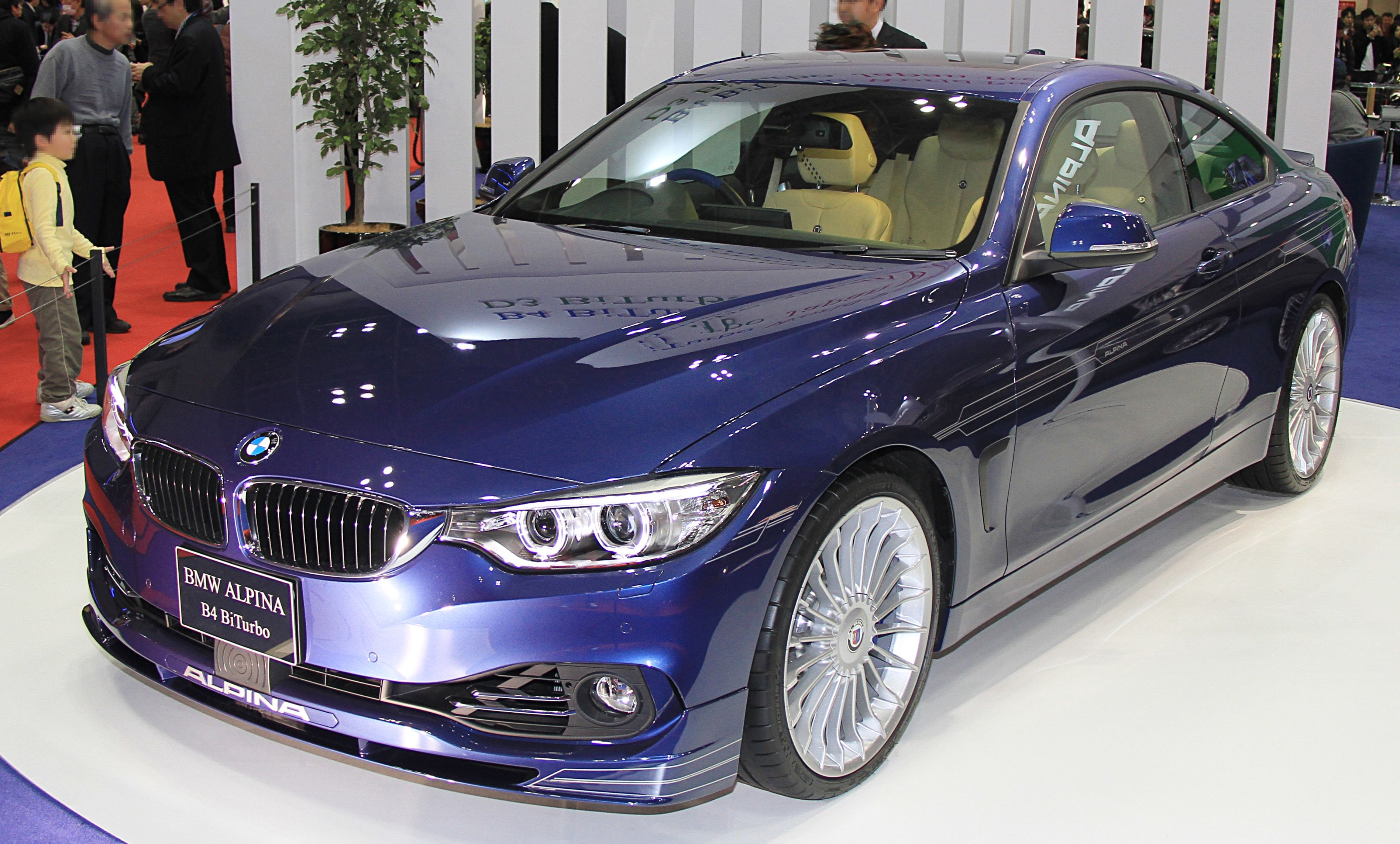 Alpina B4